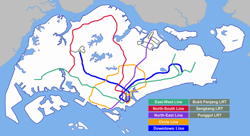 All MRT & LRT lines in Singapore, including Downtown Line but excluding Sentosa Express